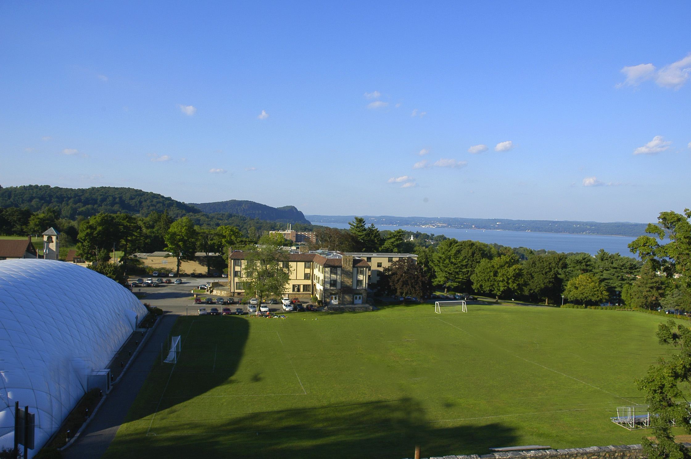 Rockland Campus at Nyack College overlooks the Hudson River